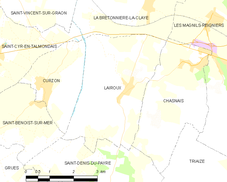 Map of French municipality Lairoux